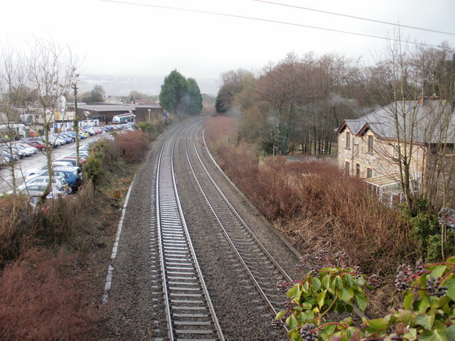 Railway lines, Llantarnam Viewed from the Newport Road bridge. The railway heads towards Cwmbran station. On the left is Burton's Foods Bakery car park.